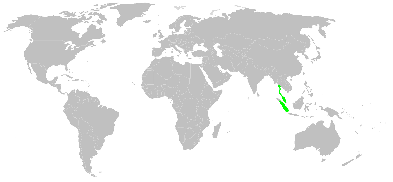 World distribution of Tapirus indicus.